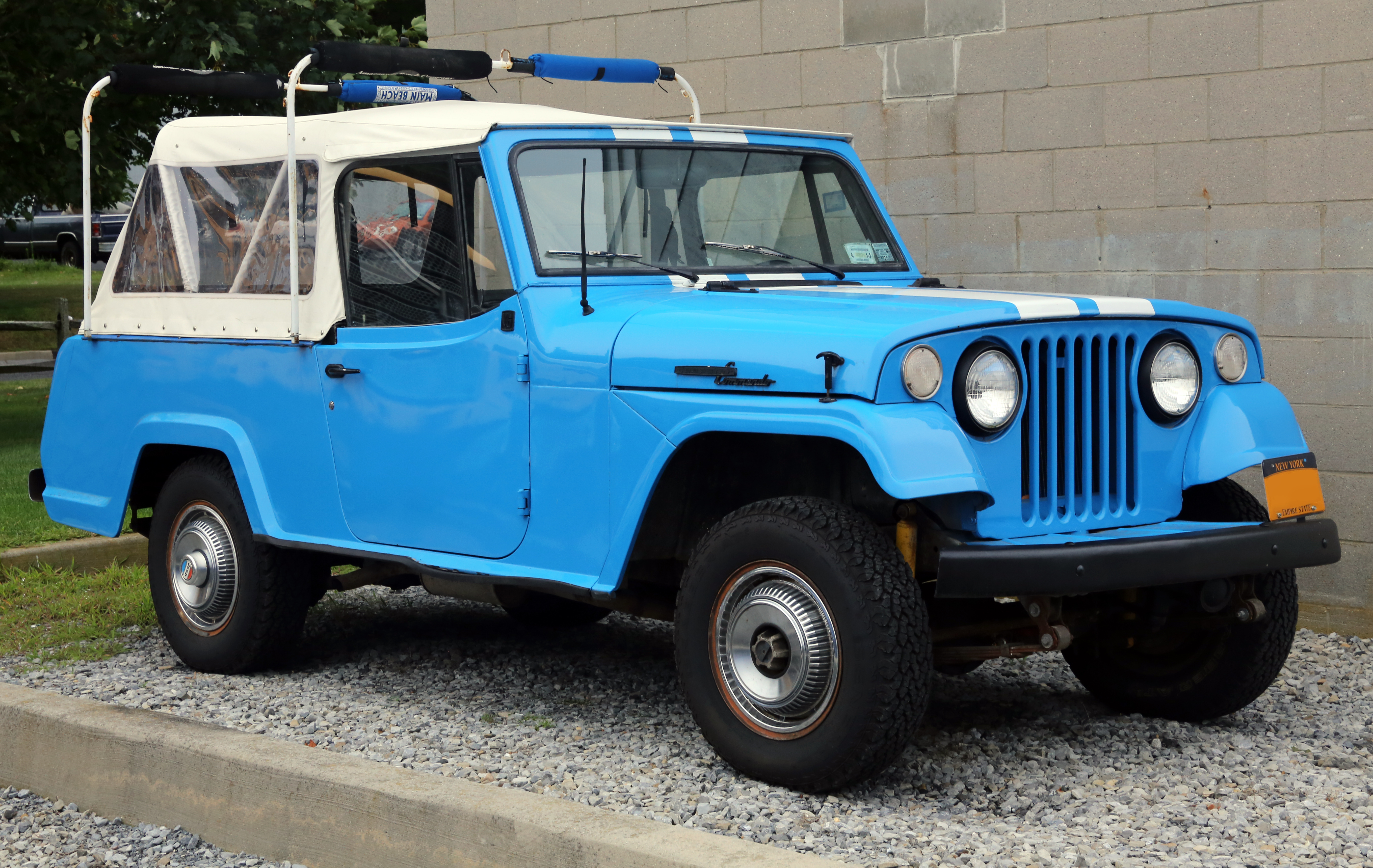 1969 Jeep Jeepster Commando (C101) Convertible. This car has a 225ci V6 (smogged), the black trim details are perplexing - are they standard? The hubcaps are fantastic.